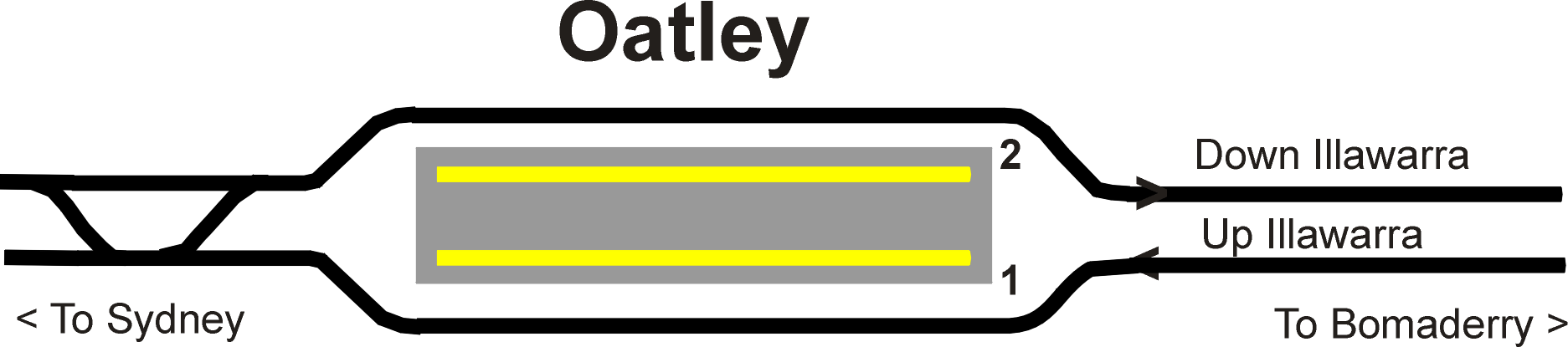 Track layout at Oatley railway station. Uploaded by Quaidy on 15/01/2007